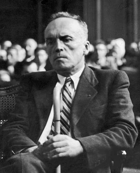 France.Paris. Georges Loustaunau-Lacau During The Trial Of Marshal Petain. 1945.